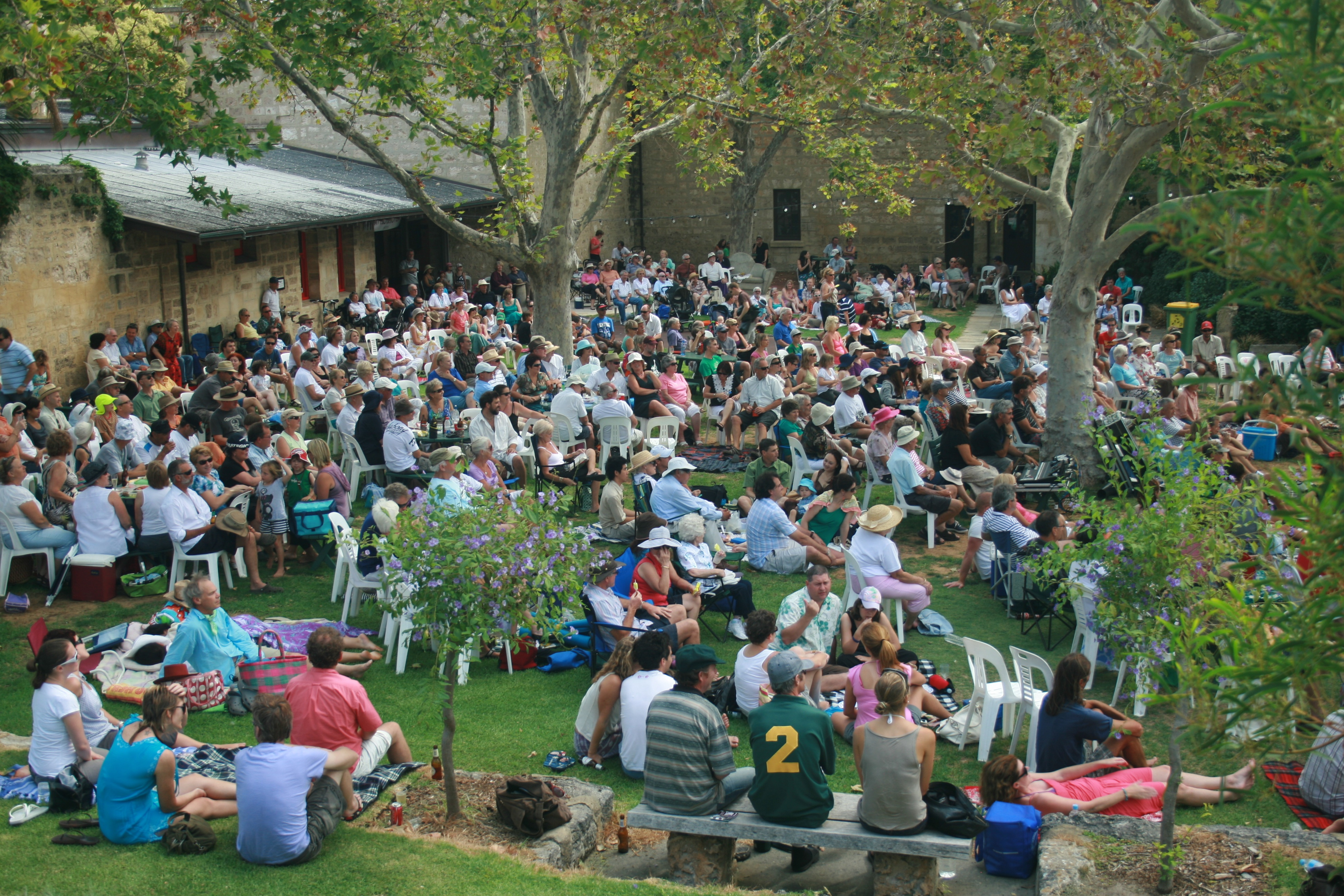 Courtyard Music at Fremantle Arts Centre